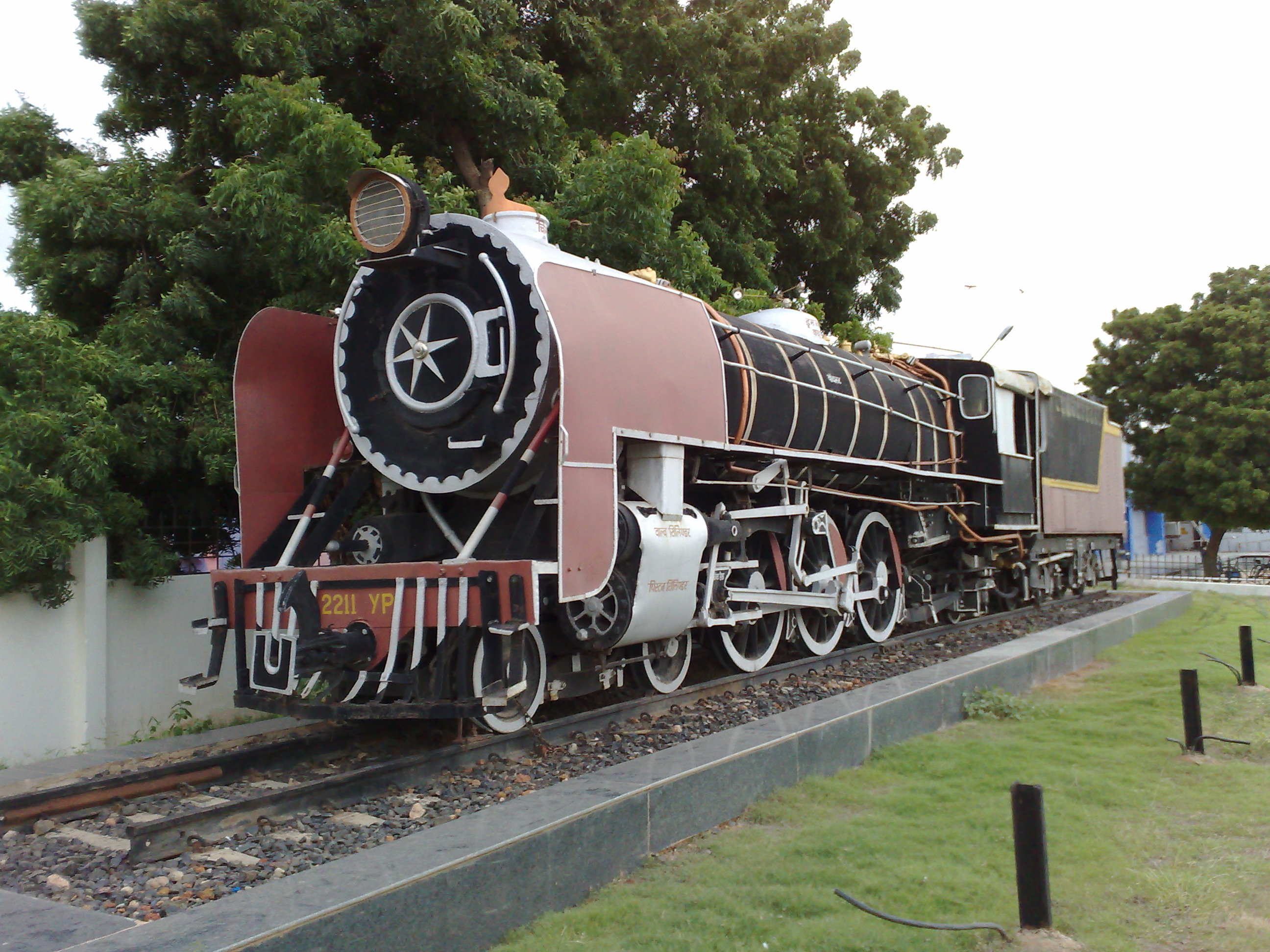 YP class loco outside Bhuj railway station